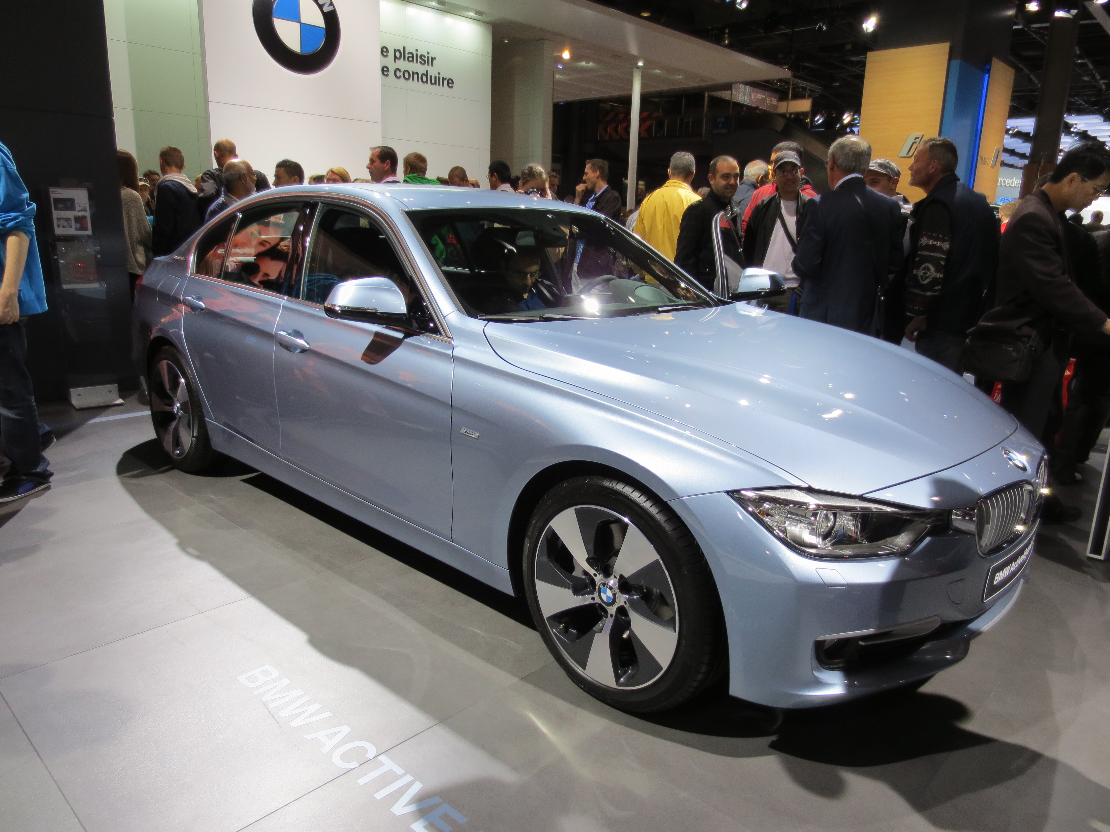 Subject: BMW ActiveHybrid 3 Author: Luc106 Date:September 29th, 2012 Event: Salon de l'Automobile 2012 Place/Country: Parc des Expositions, Porte de Versailles, Paris I release all rights in the public domain.